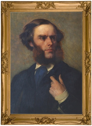 Founder and Deputy chairman of the Lynn to Hunstanton line Co. 1815 - 1862